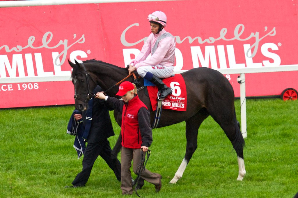 The Fugue at Leopardstown in September 2013.